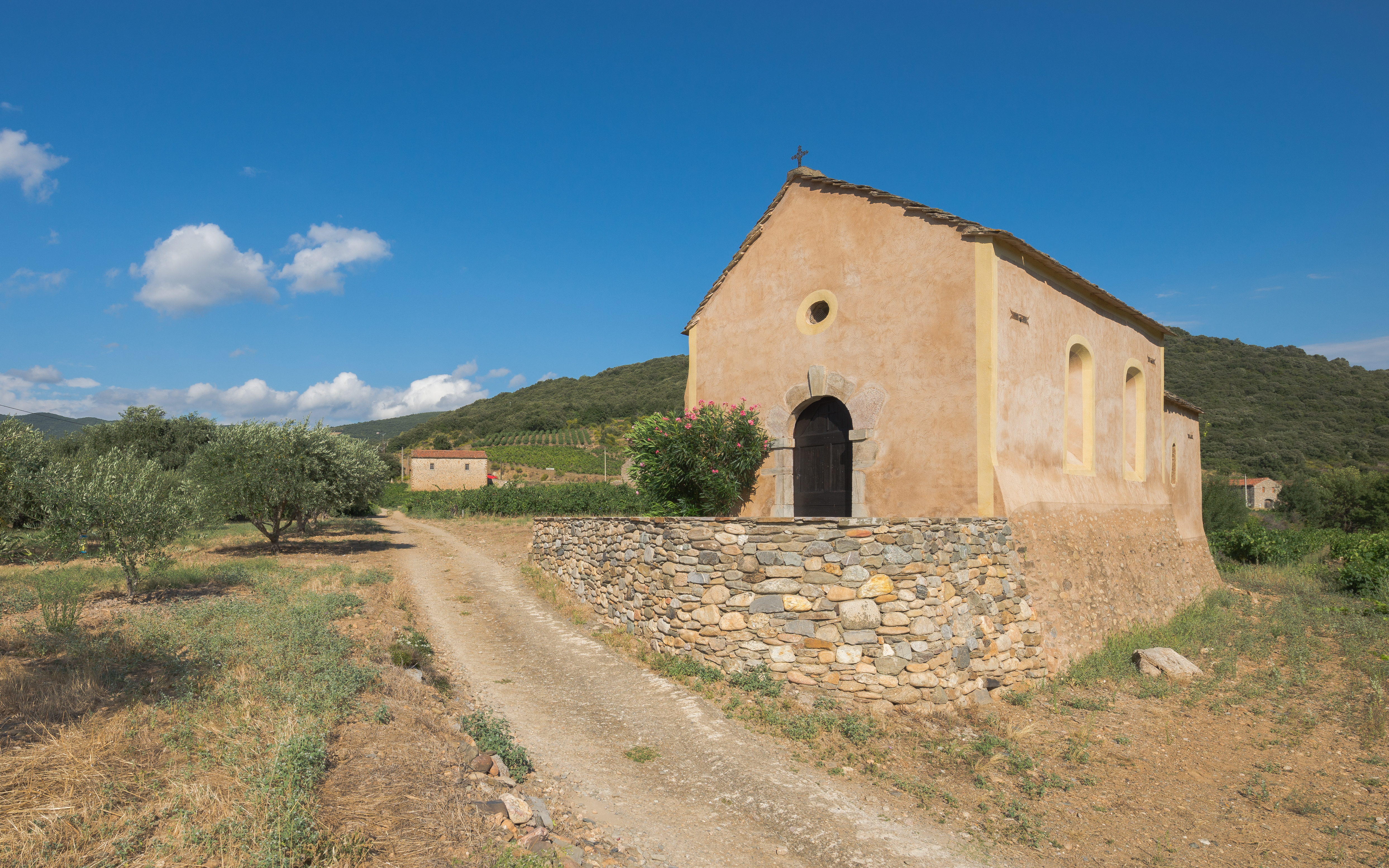 Chapel of Saint-Pontien (date unknow, cited for the first time in a charter in the year of 940). Hamlet of Ceps, Roquebrun, Hérault, France. Haut-Languedoc Regional Natural Park.